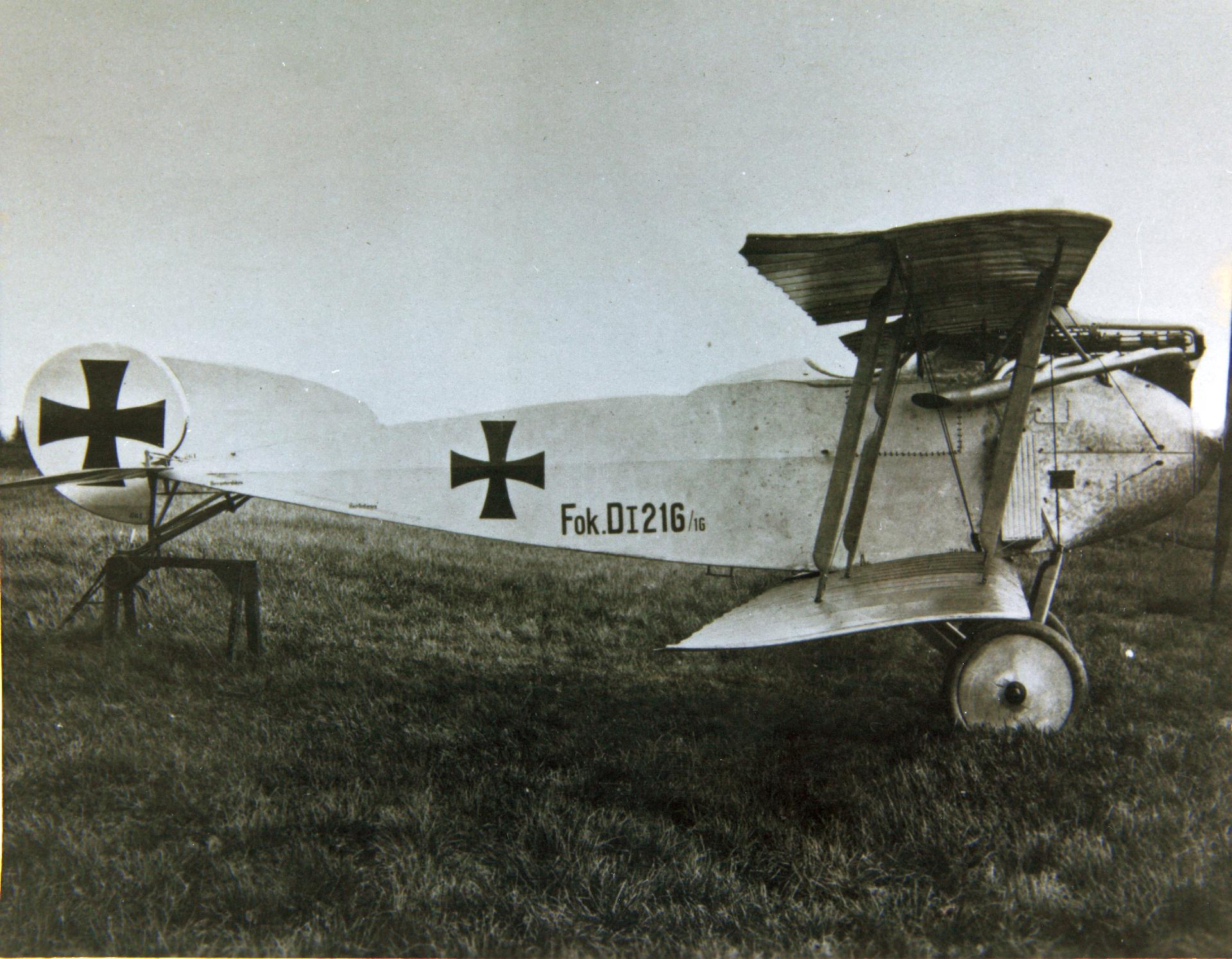 Fokker D.I 216-1916